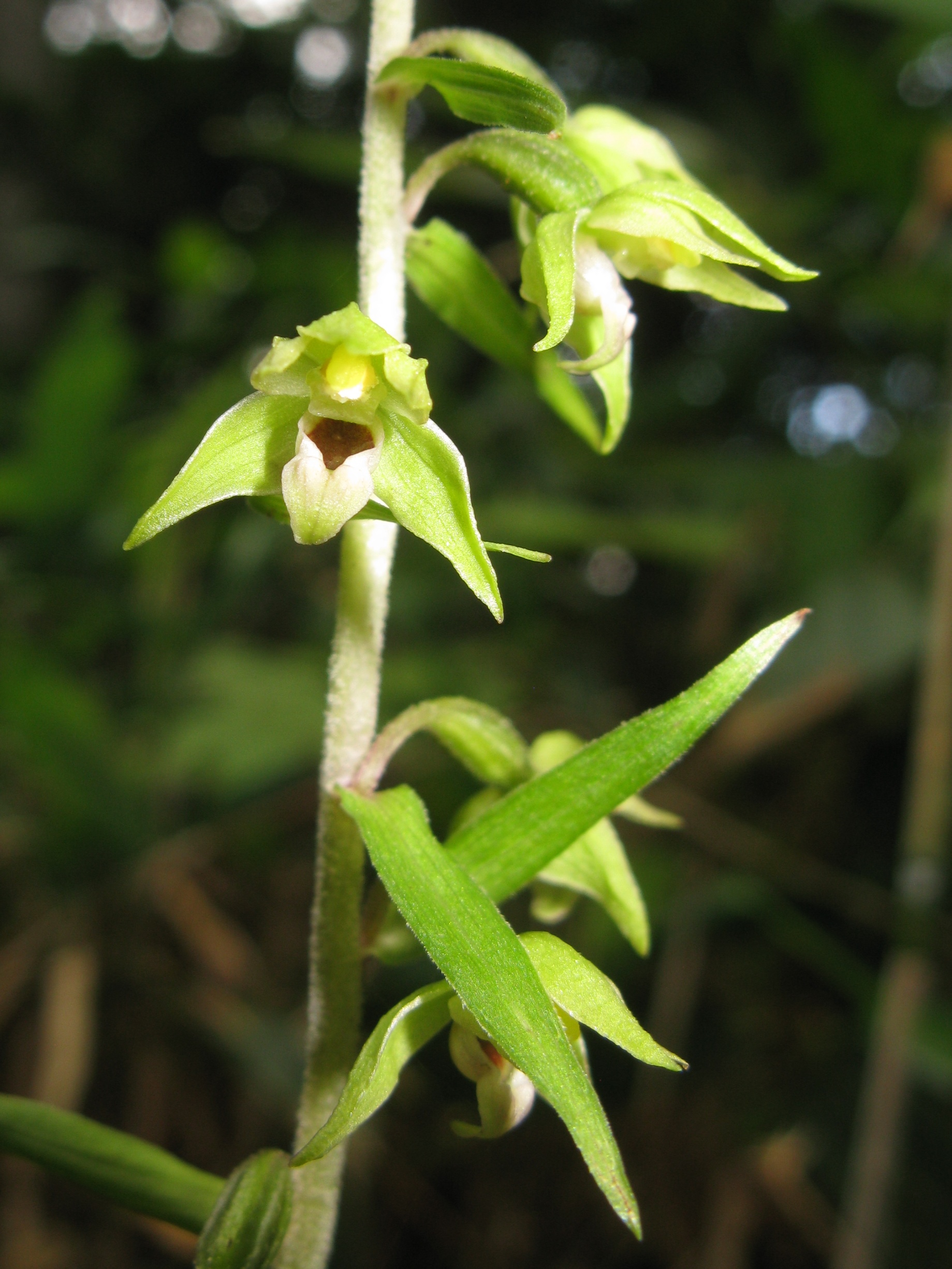 Epipactis papillosa, Oze, Fukushima pref., Japan